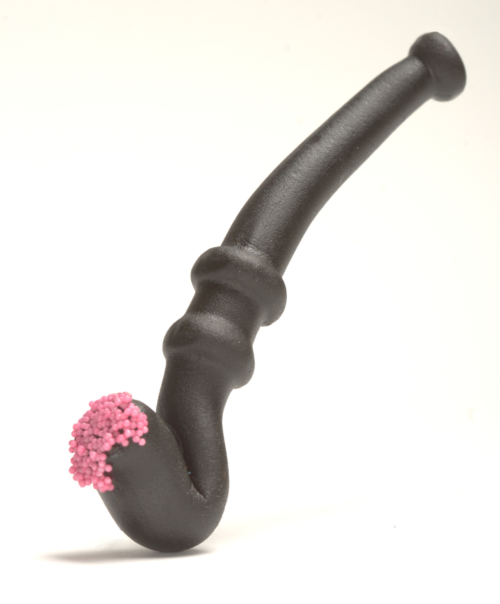 A Sweet made of liquorice to resemble a pipe